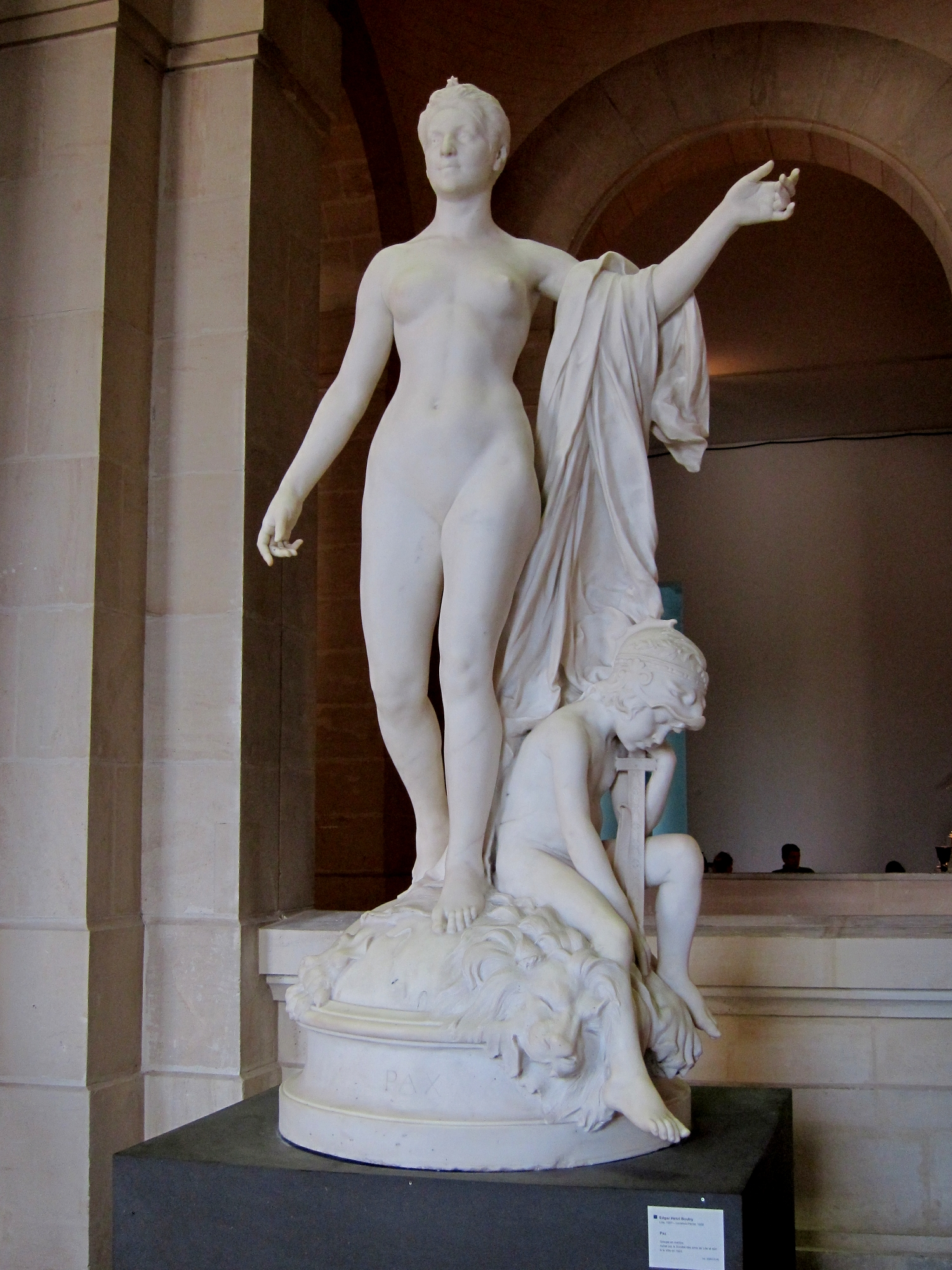 Pax(peace) carved by Edgar Boutry (1857 - 1938), and here in the Hall of Palace of Fine Arts in Lille. Female figure (allegory) representing Peace walking on the remains of a skinned lion, with on his left a child holding a sword. E. Boutry has produced several sculptures on the theme of the peace.